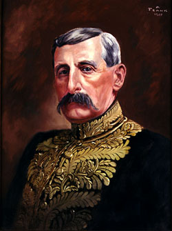 Thomas Wilson Paterson (6 December 1851 – 28 August 1921) was a Canadian railway contractor, politician, and the ninth Lieutenant Governor of British Columbia.